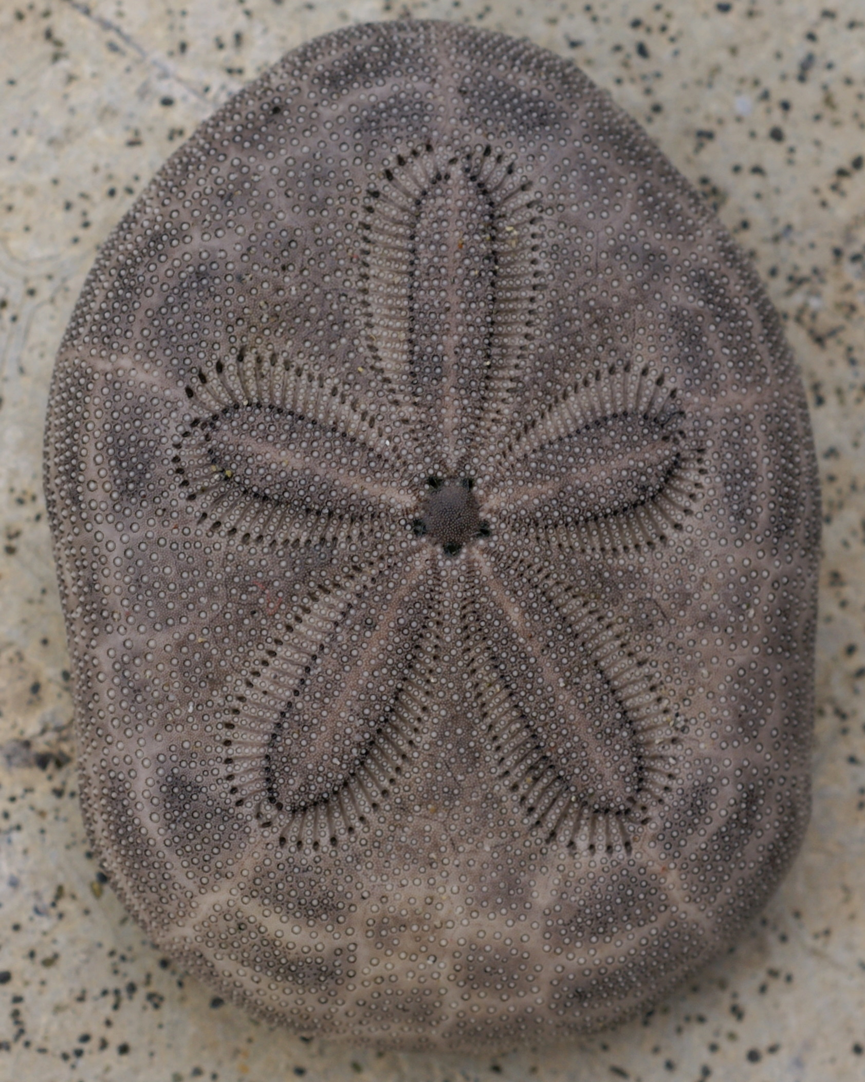 test of Clypeaster reticulatus (upperside) (found on the beach of Saint-Pierre, Réunion island)